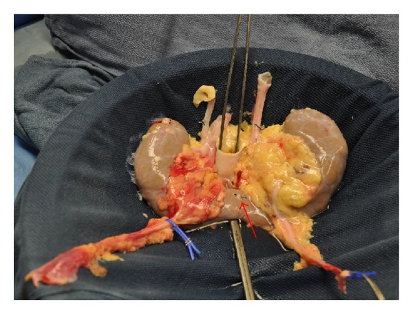 Horseshoe kidney. The red arrow points to the accessory artery feeding the bridge of the horseshoe kidney. The indicated artery was ligated during back-table preparation of the kidneys.